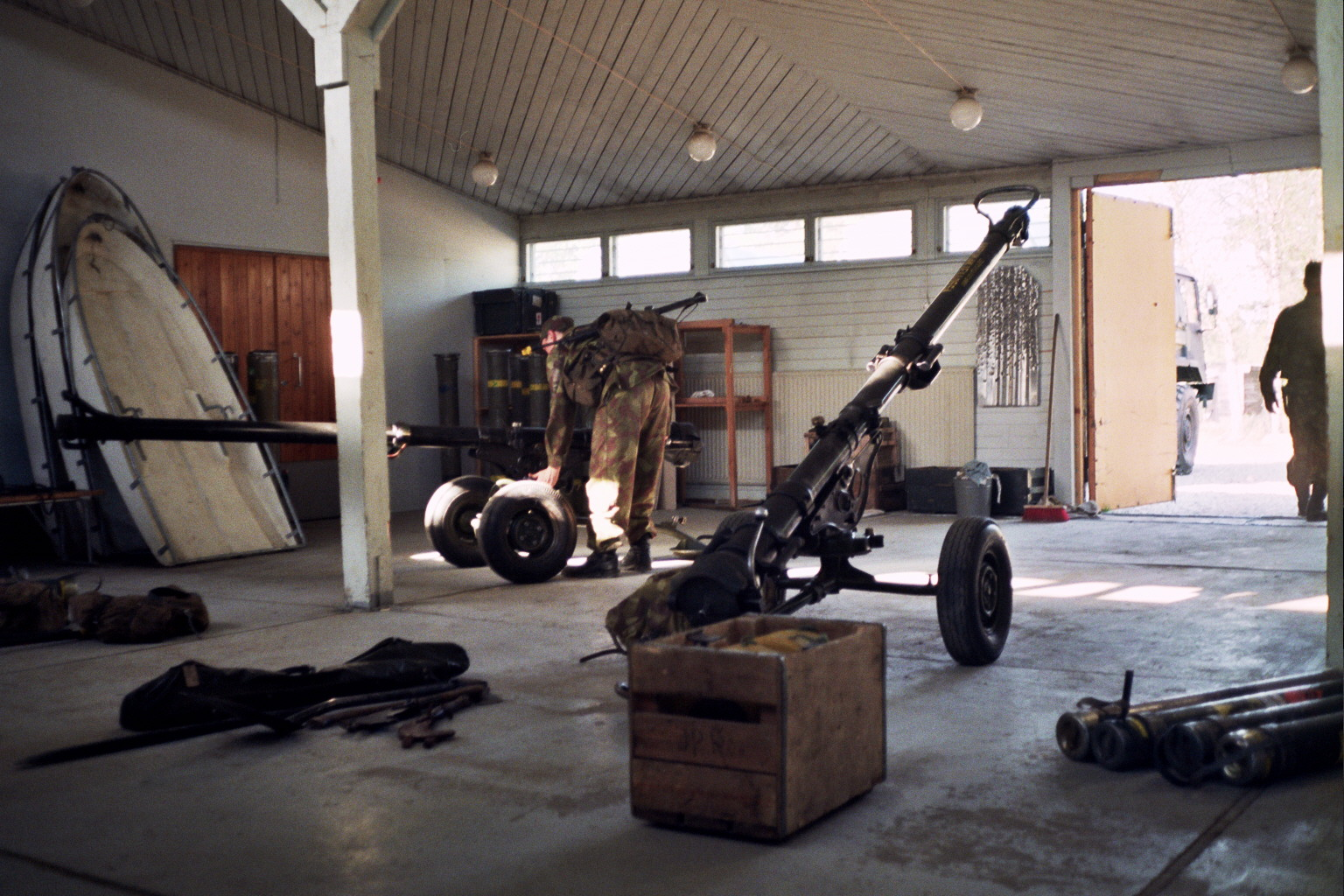 Finnish 95 S 58-61 recoilless rifles and related equipment in Jääkäriprikaati, Sodankylä, Finland, 1997.